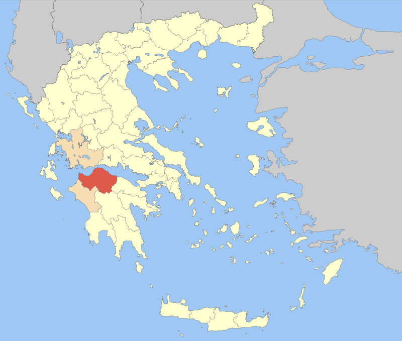 Locator map of Achaia prefecture (Νομός Αχαΐας) in Greece